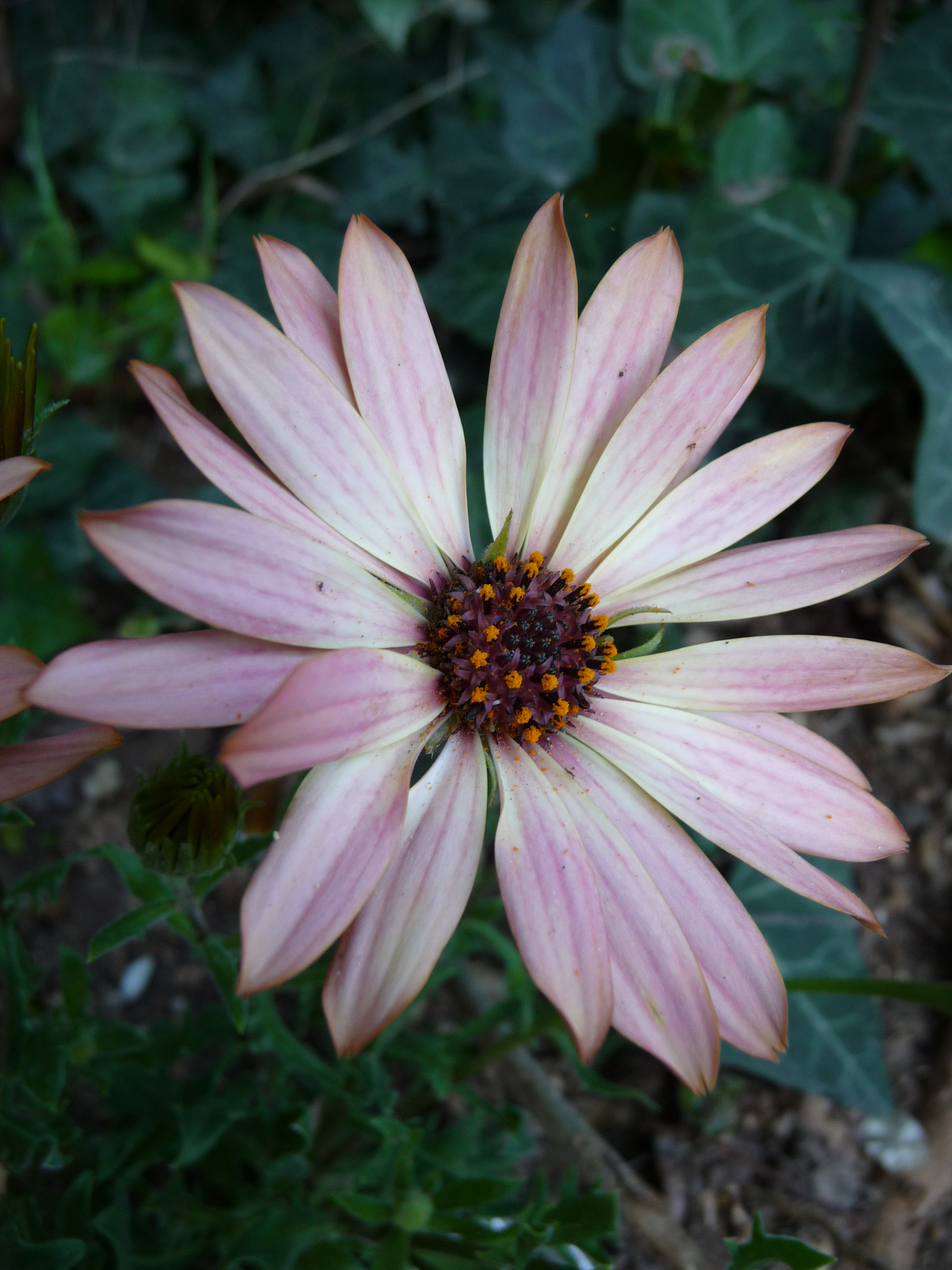 Beit Oren is a kibbutz in northern Israel. It falls under the jurisdiction of Hof HaCarmel Regional Council.